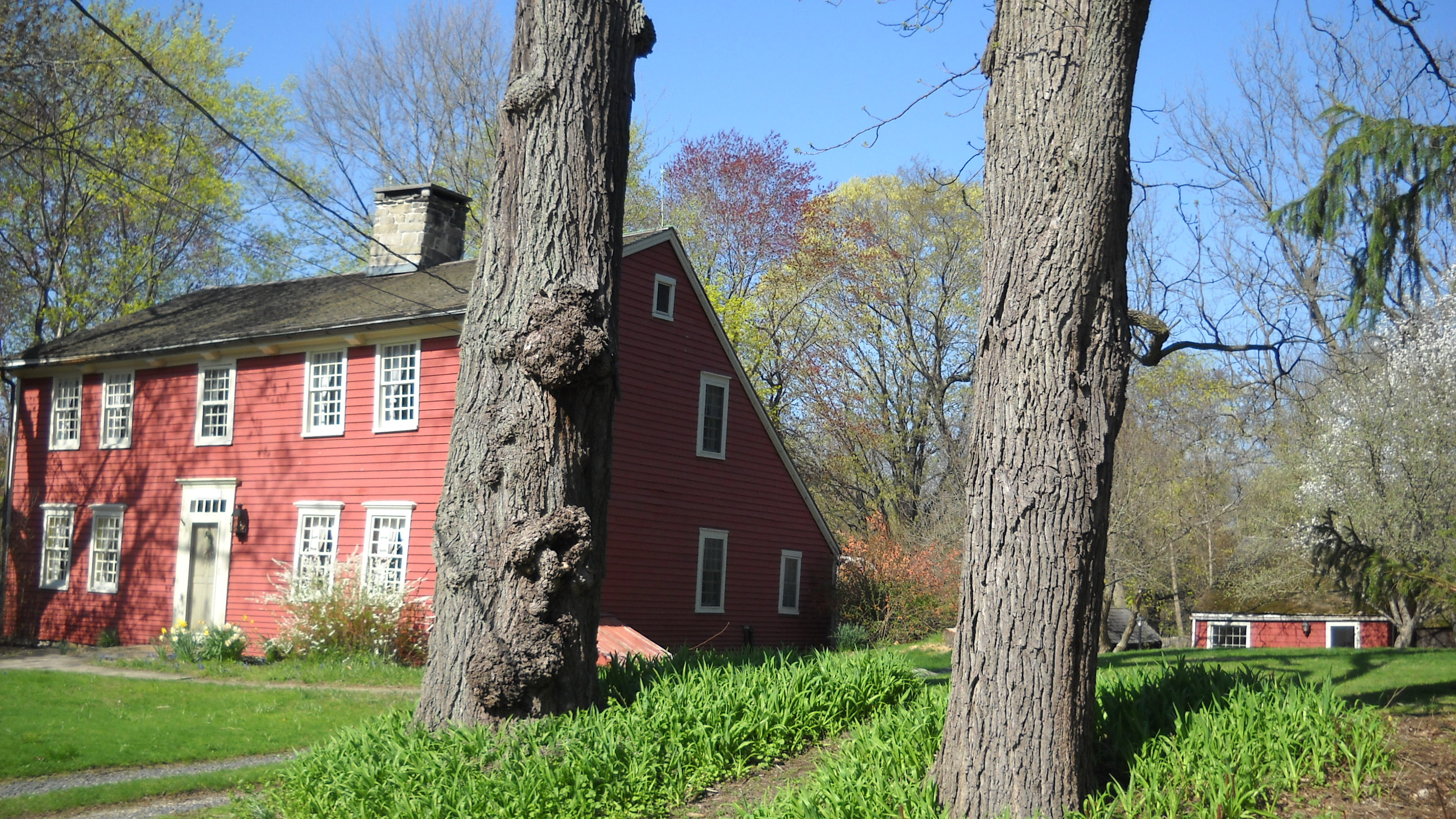 Ephraim hawley House 2011 historic picture view retaken.